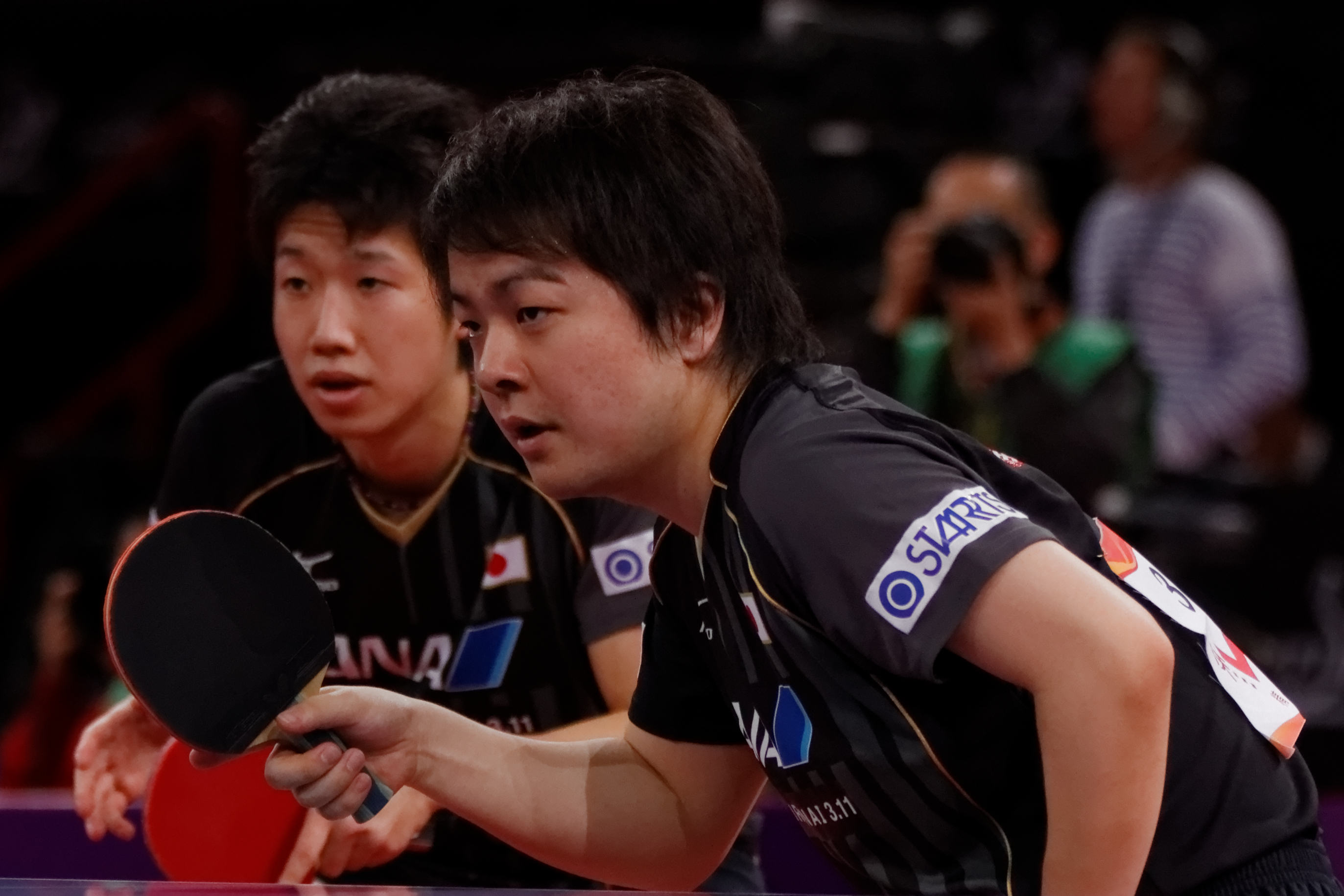 2013 World Table Tennis Championships, Paris. Men's Doubles Semifinals. Hao Shuai - Ma Lin vs Seiya Kishikawa - Jun Mizutani